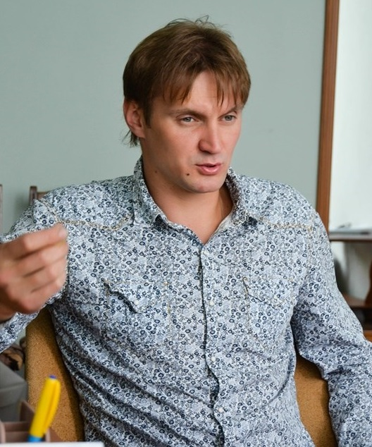 Serhiy Breus during an interview with a journalist of "Mayesh Pravo Znaty" in the "Kupava" pool, Brovary, Kyiv Oblas, Ukraine. Proof of License: [2].